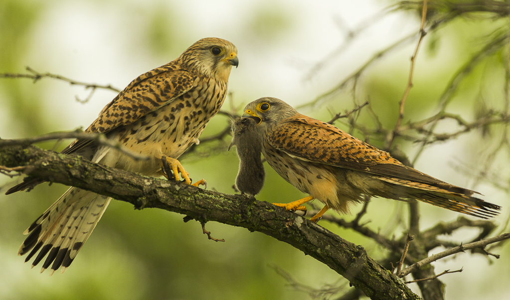 Eurasian Kestrel m offers a vole to the fem - Hortobagy - Hungary_S4E2441